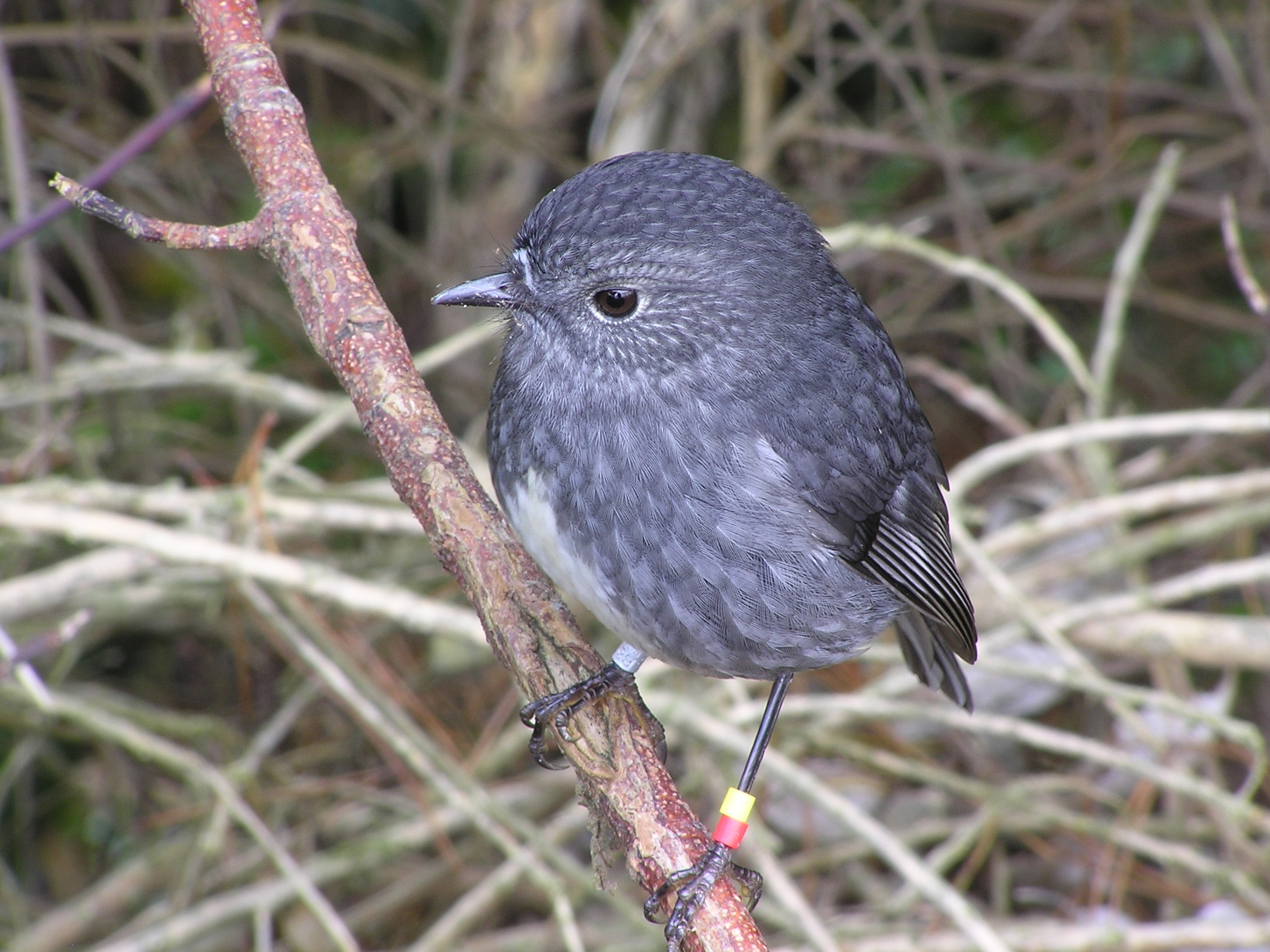 New Zealand North Island Robin (Māori name: Toutouwai). This bird is banded to identify it as part of a restoration scheme to return robins to Wellington and was released in the Karori Wildlife Sanctuary, an area surrounded by a predator proof fence. The fence can be seen reflected in its eyeball.